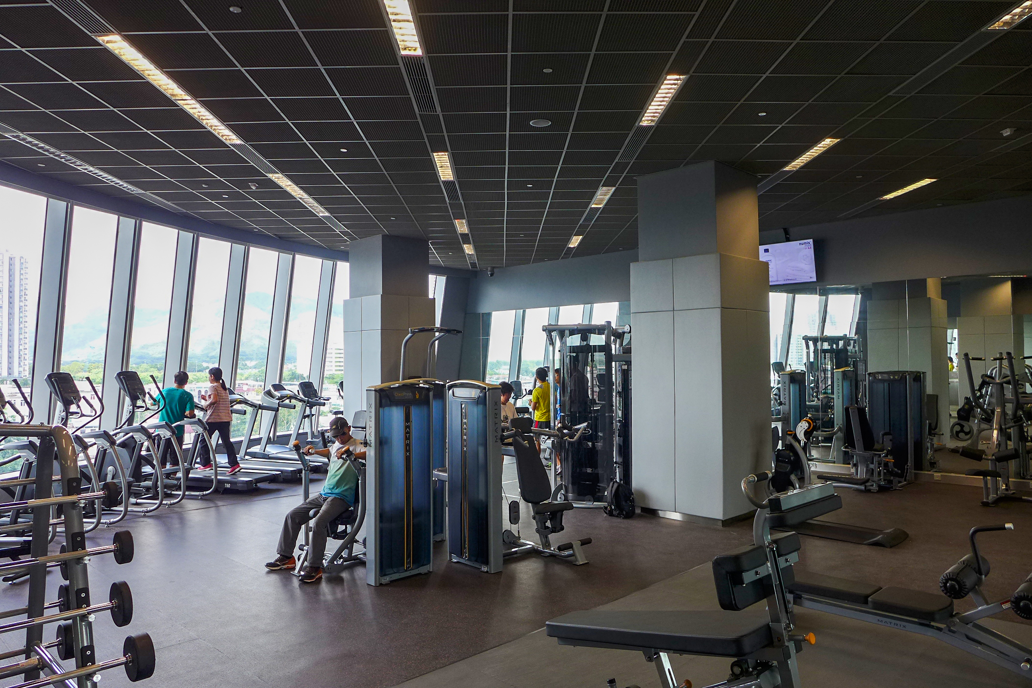 Yuen Long Sports Centre Gym Room